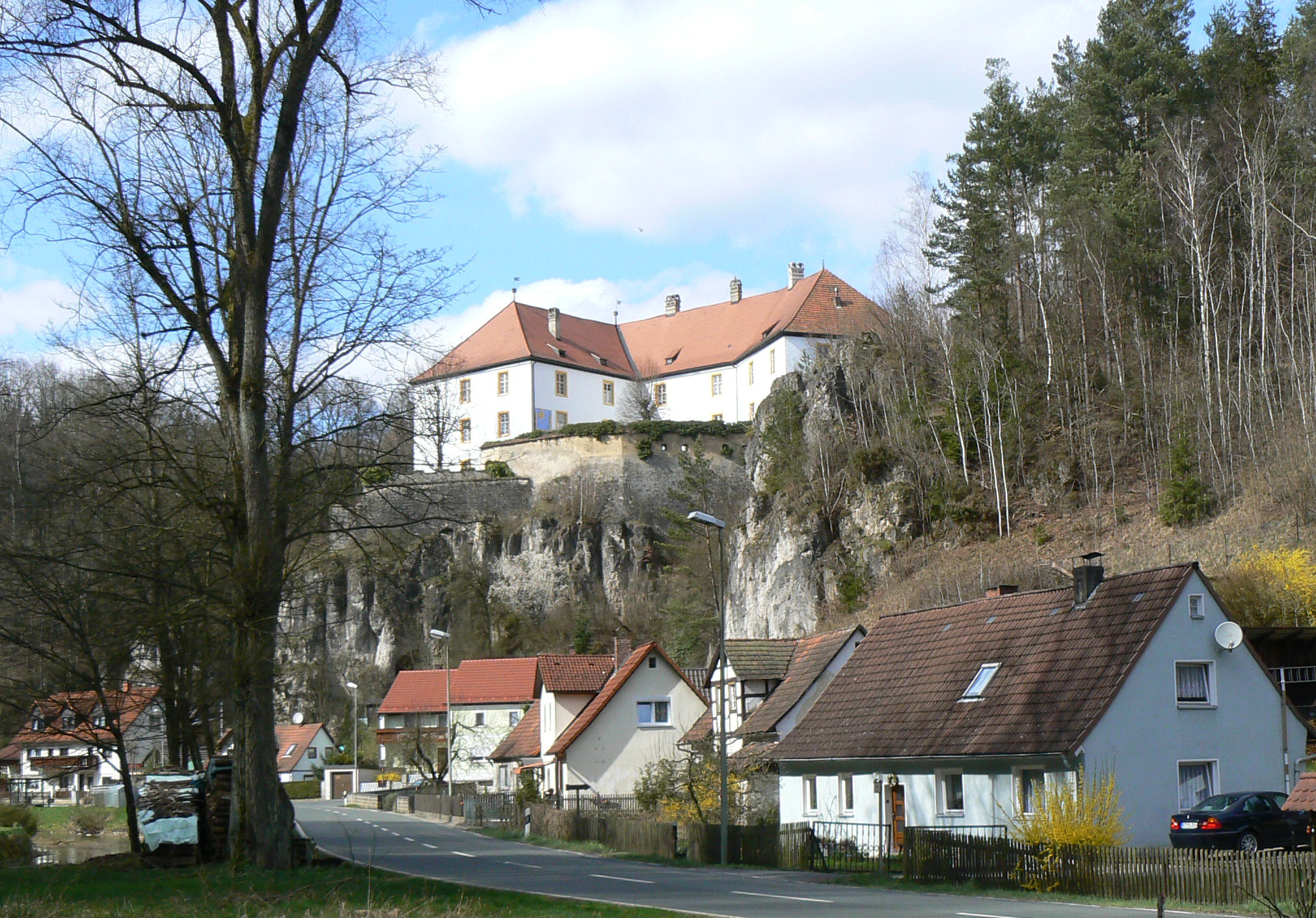 view of Freienfels, part of Hollfeld, Germany